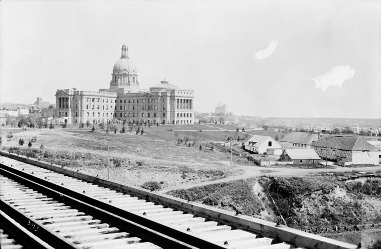 View of Alberta Legislature Building and old Fort Edmonton from High Level Bridge, 1914.